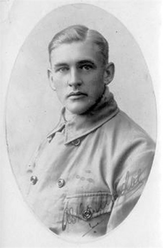 Oskar Omdal, Lieutenant in the Norwegian Naval Air Force.